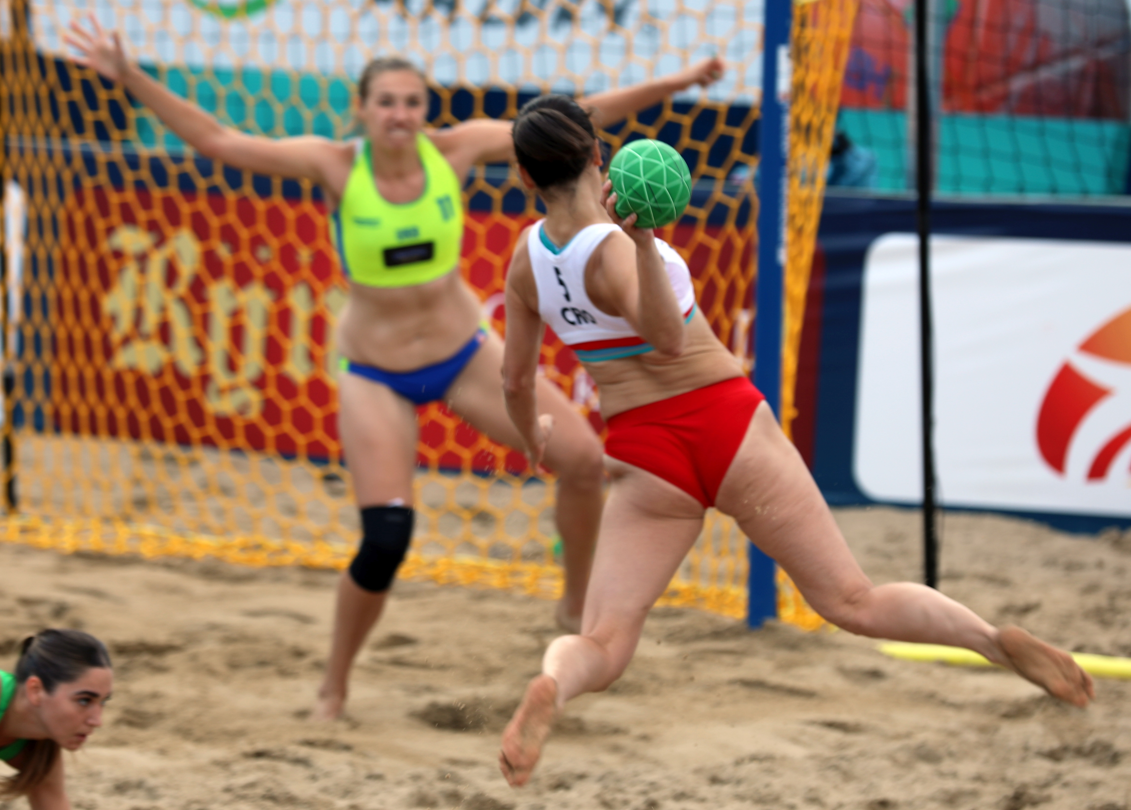 Beach handball Euro; Day 4: 5 July 2019 – Quarter Final Women – Croatia-Ukraine 2:0 (21:20, 21:18)